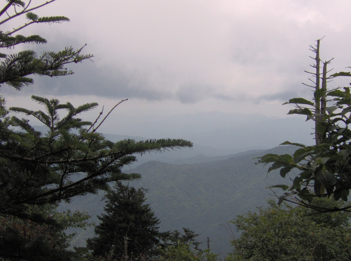 Looking south from the Appalachian Trail, near the summit of Mount Collins (el. 6,188 feet/1,886 meters) in the Great Smoky Mountains. Mount Collins is situated along the trail between Clingman's Dome and Newfound Gap. Foliage at left is Abies fraseri (Fraser Fir).